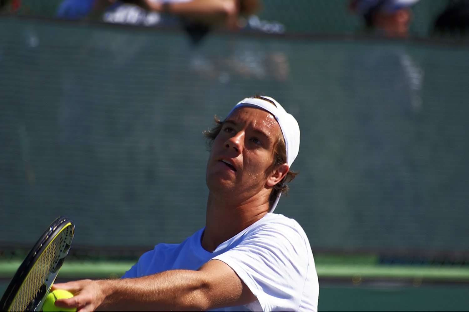 Richard Gasquet preparing to serve at the 2008 Pacific Life Open.